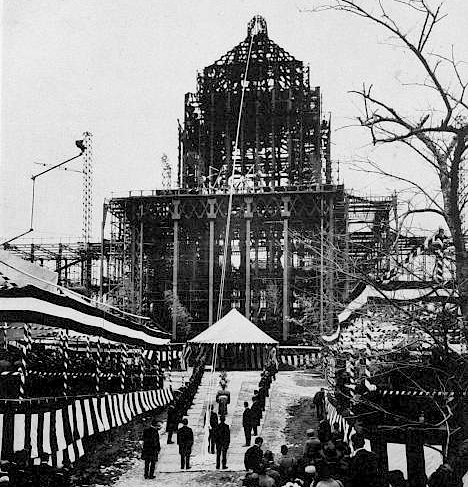 Japanese Diet Hall Raising Ceremony April 7, 1927